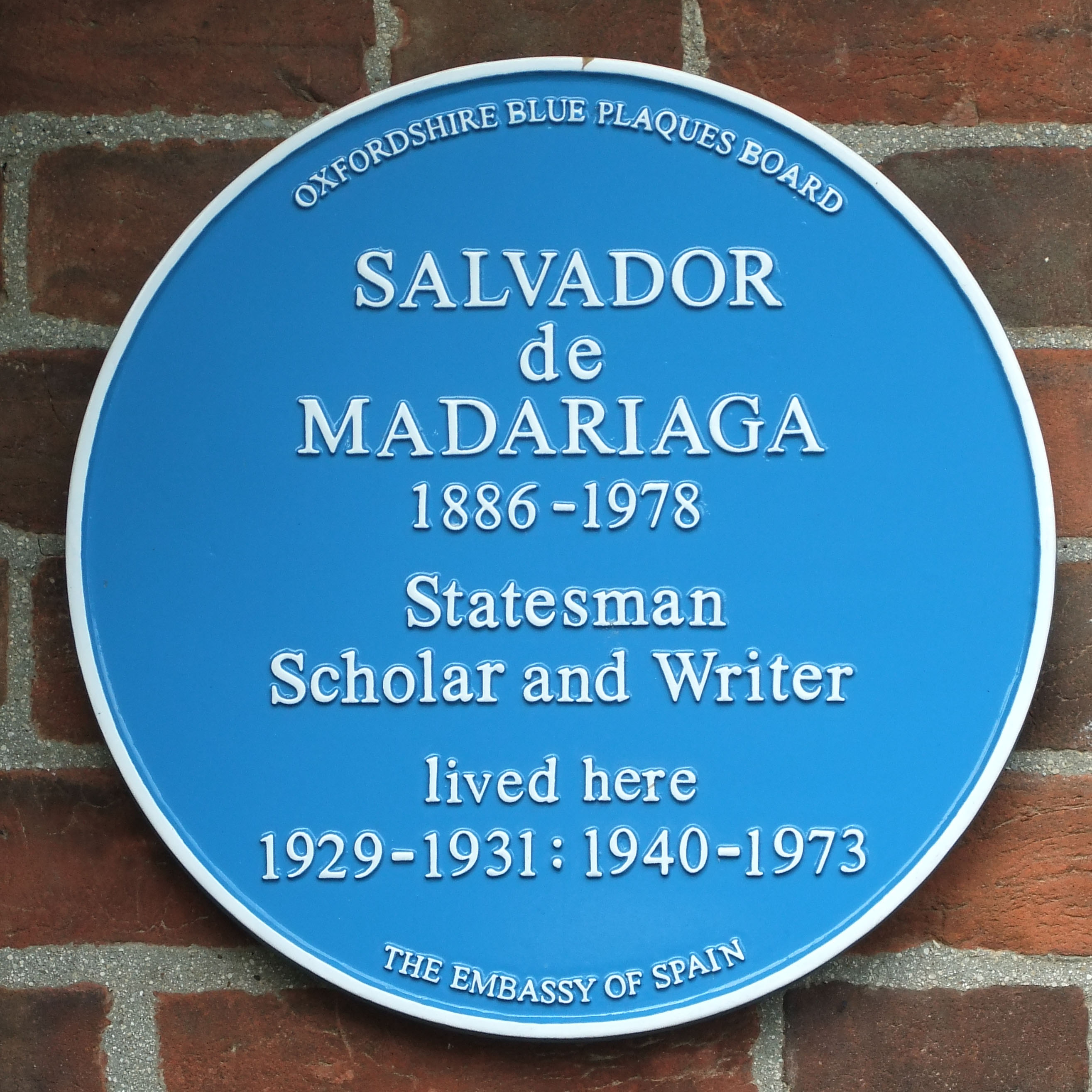 Madariaga plaque in Oxford